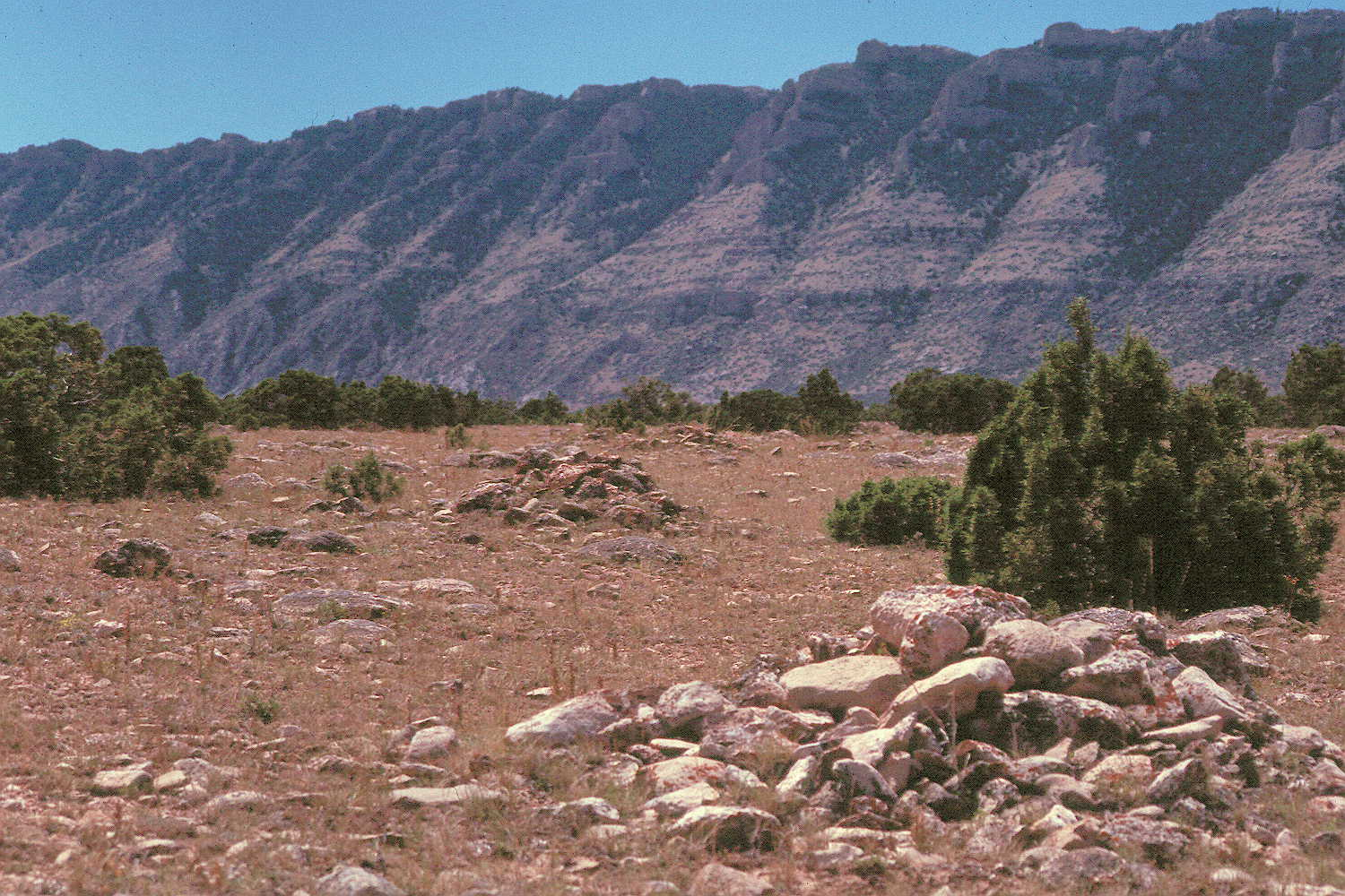 Bad Pass Trail, Sioux Trail — historic trail in Bighorn Canyon National Recreation Area, in the Big Horn Counties of Montana and Wyoming.